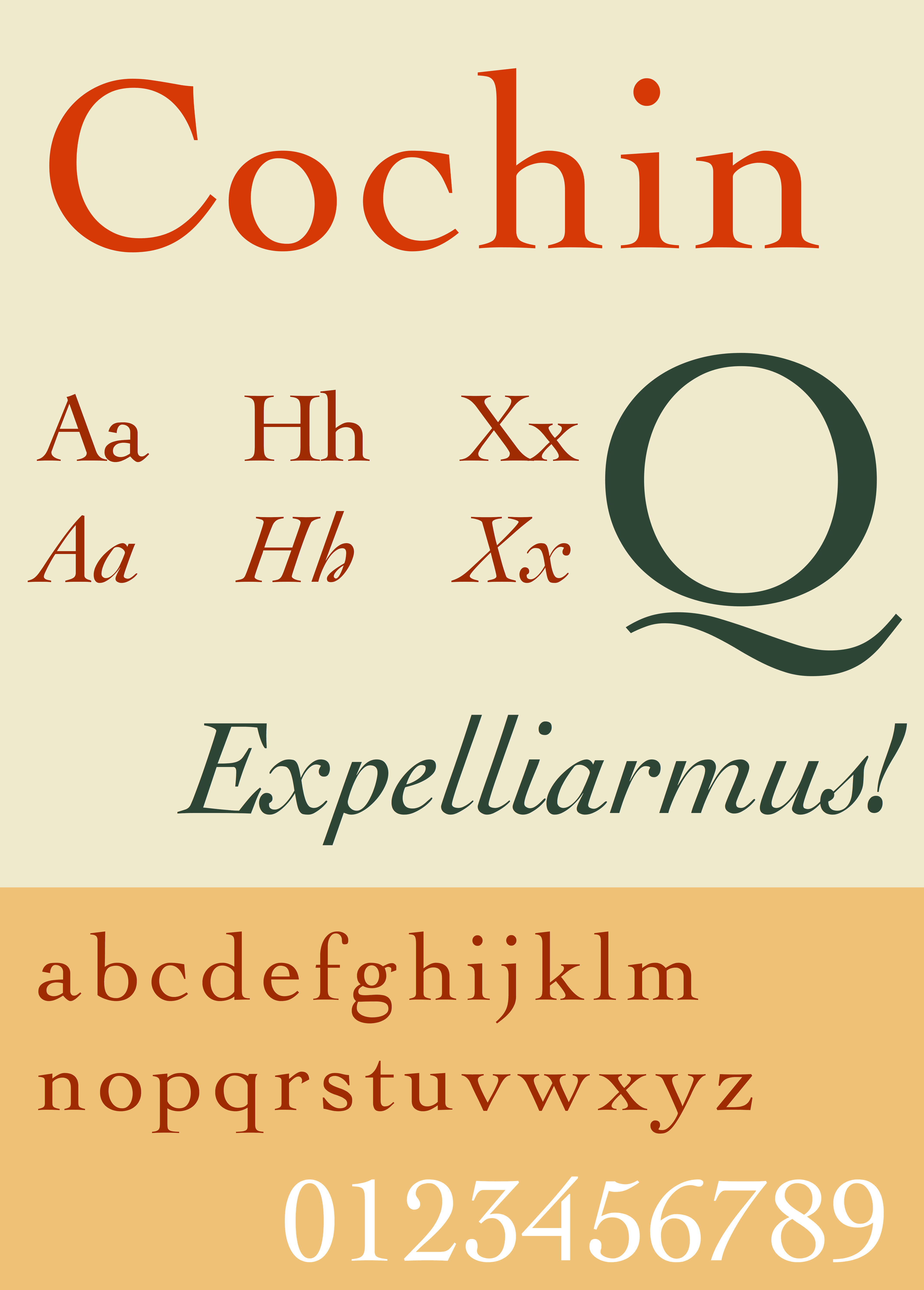 Sample image for the font Cochin. As it's the traditional cover of the Harry Potter books, I've chosen a matching text sample.